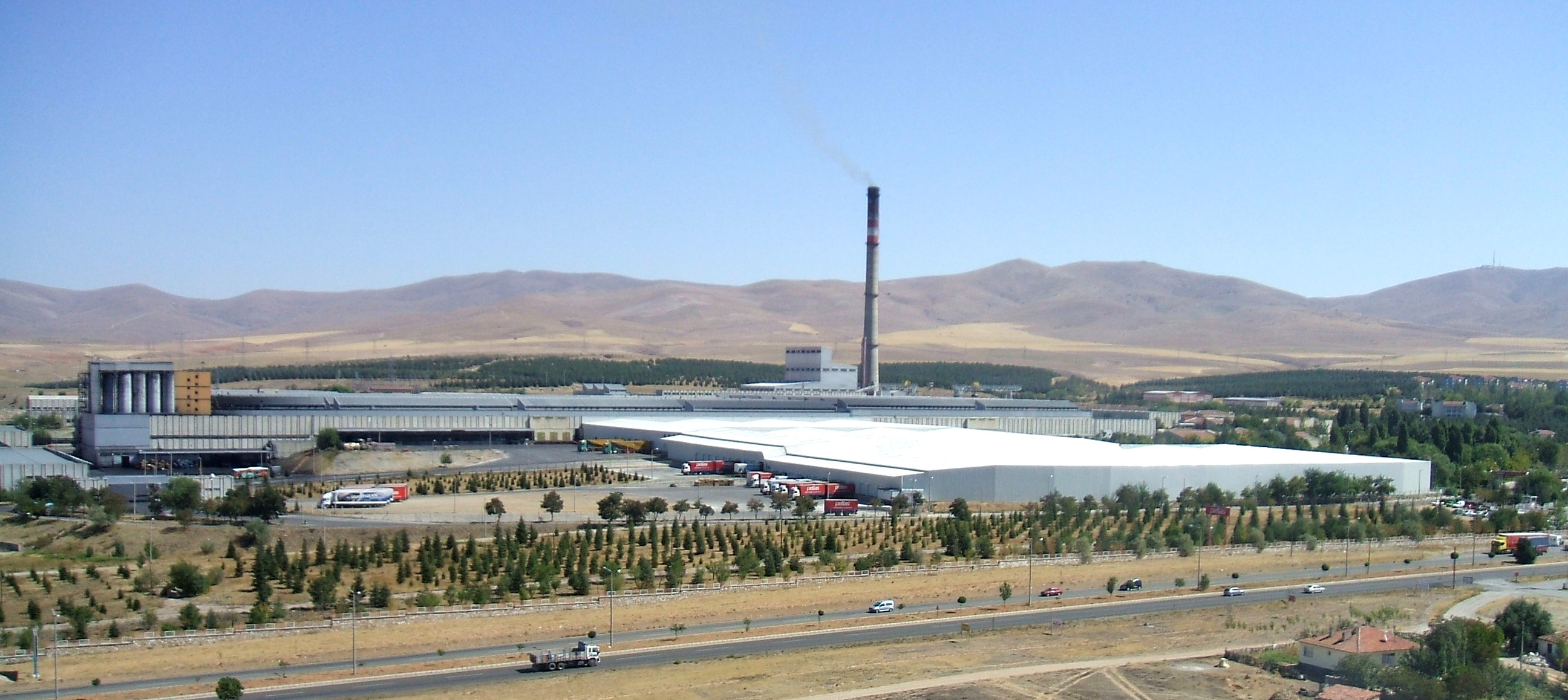 Petlas factory lands on 2,000,000 sq. metres